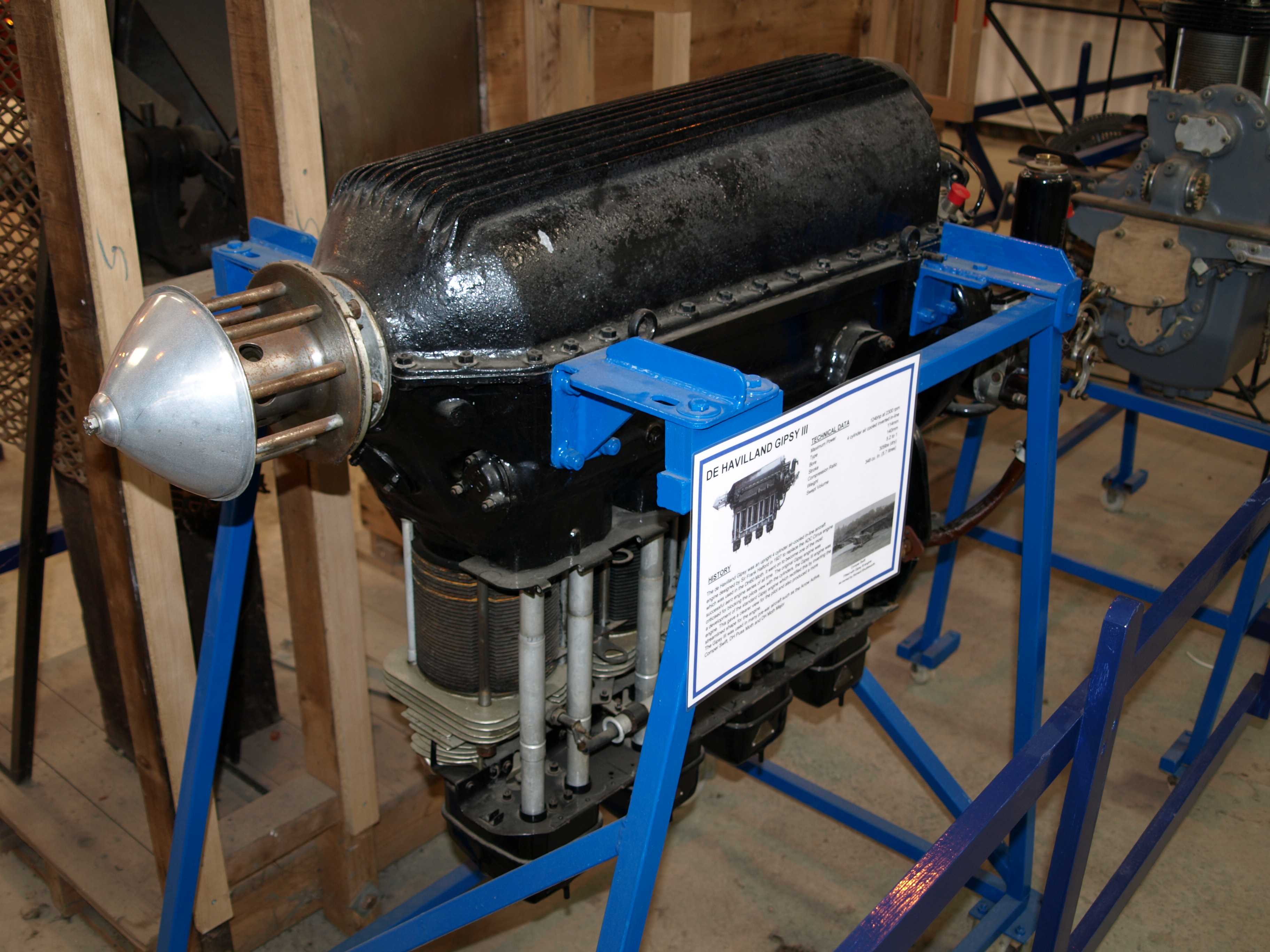 de Havilland Gipsy III aero engine